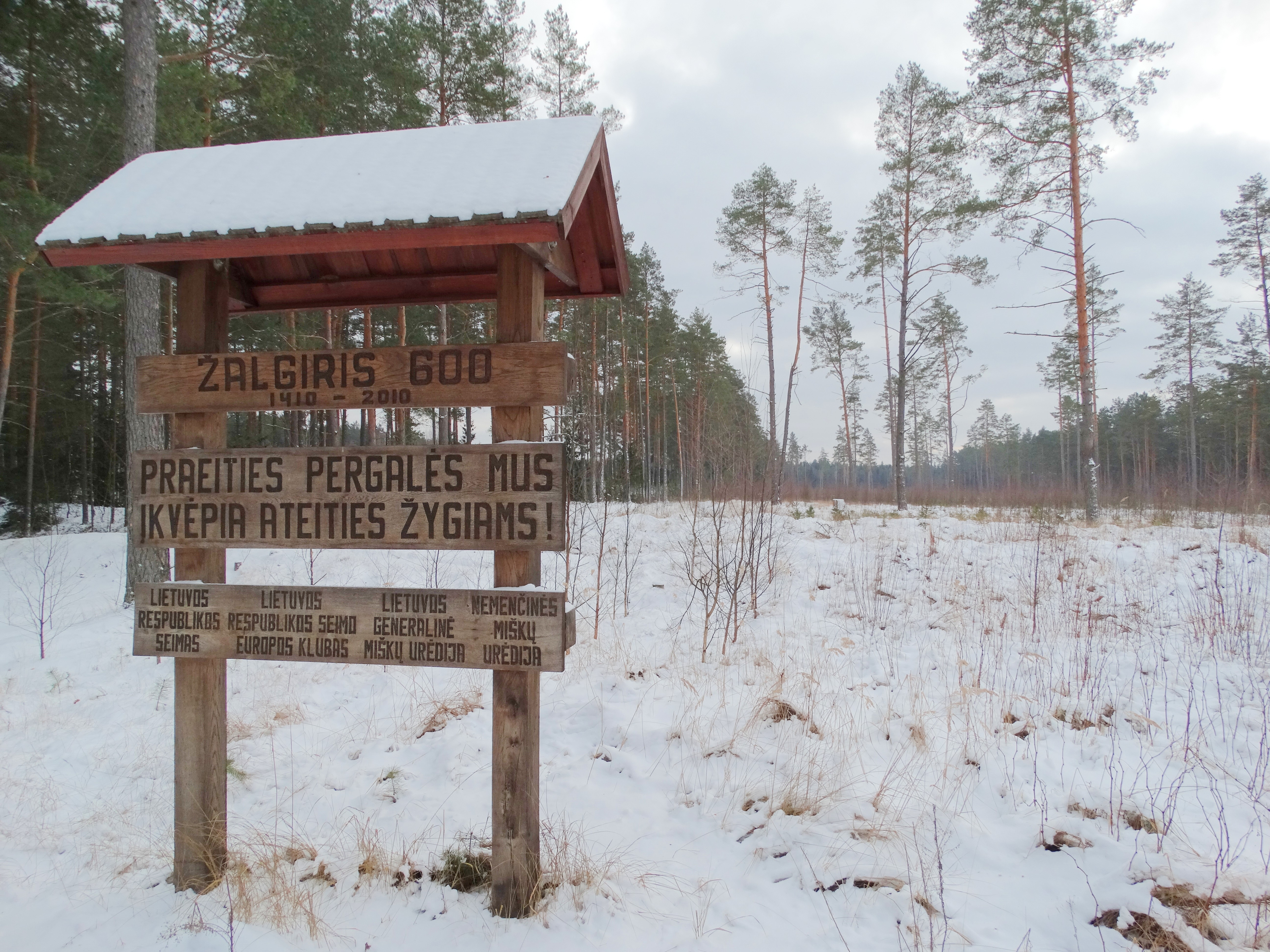 Information board Žalgiris 600, Bezdonys, Vilnius district, Lithuania